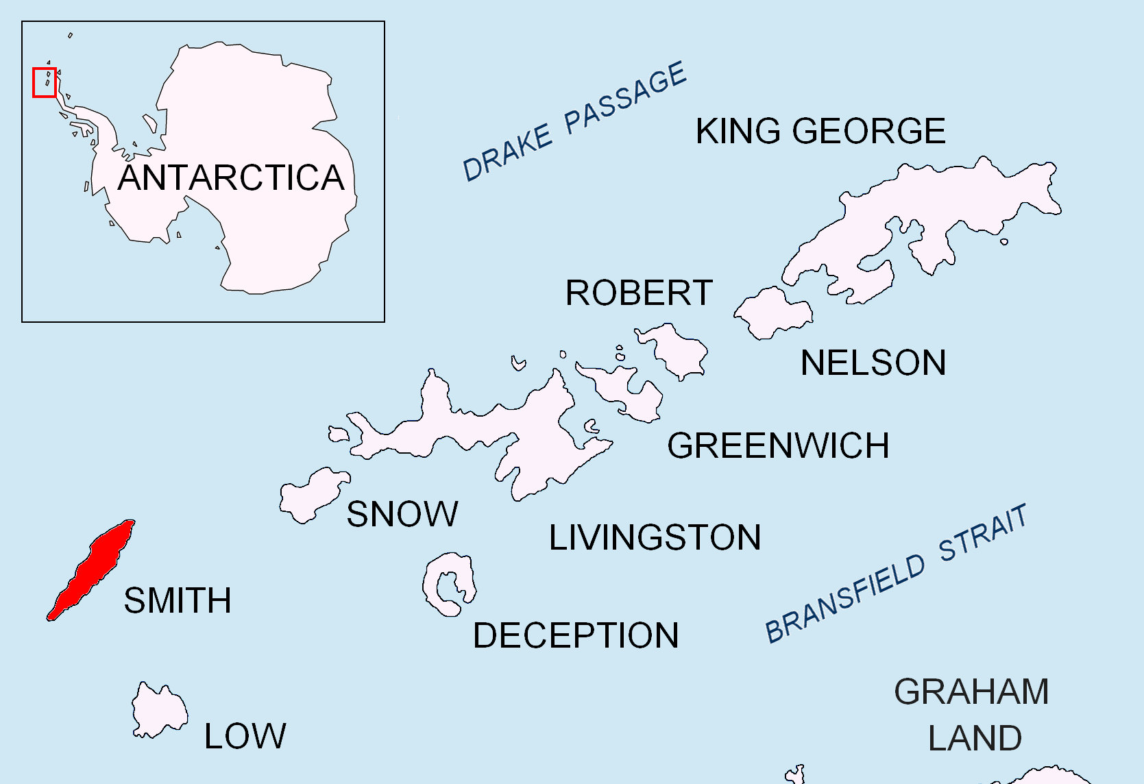 Location map of Smith Island in the South Shetland Islands.